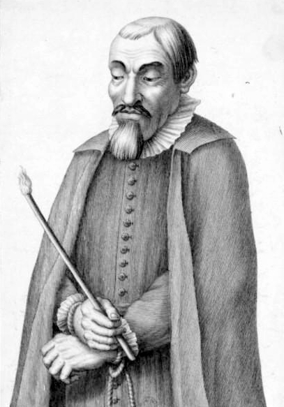 Spanish quietist Miguel de Molinos (1628-1696).